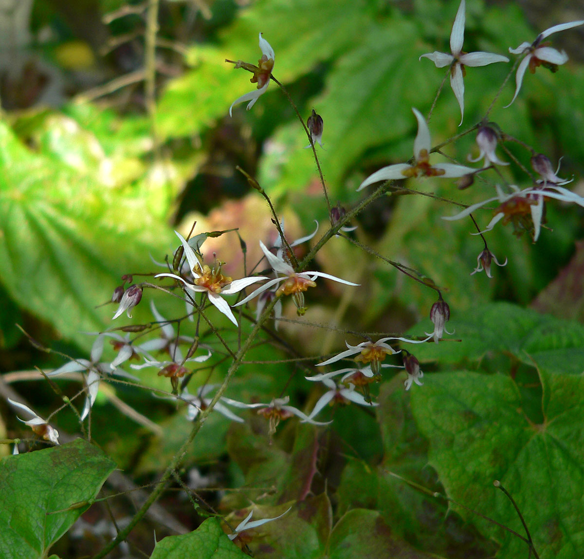 Epimedium pubescens at the University of California Botanical Garden, Berkeley, California